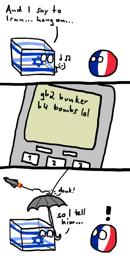 Polandball comic on the news that Israel will begin trials of sending SMS messages to Israeli mobile phone subscribers to warn of incoming missile attacks (news link)